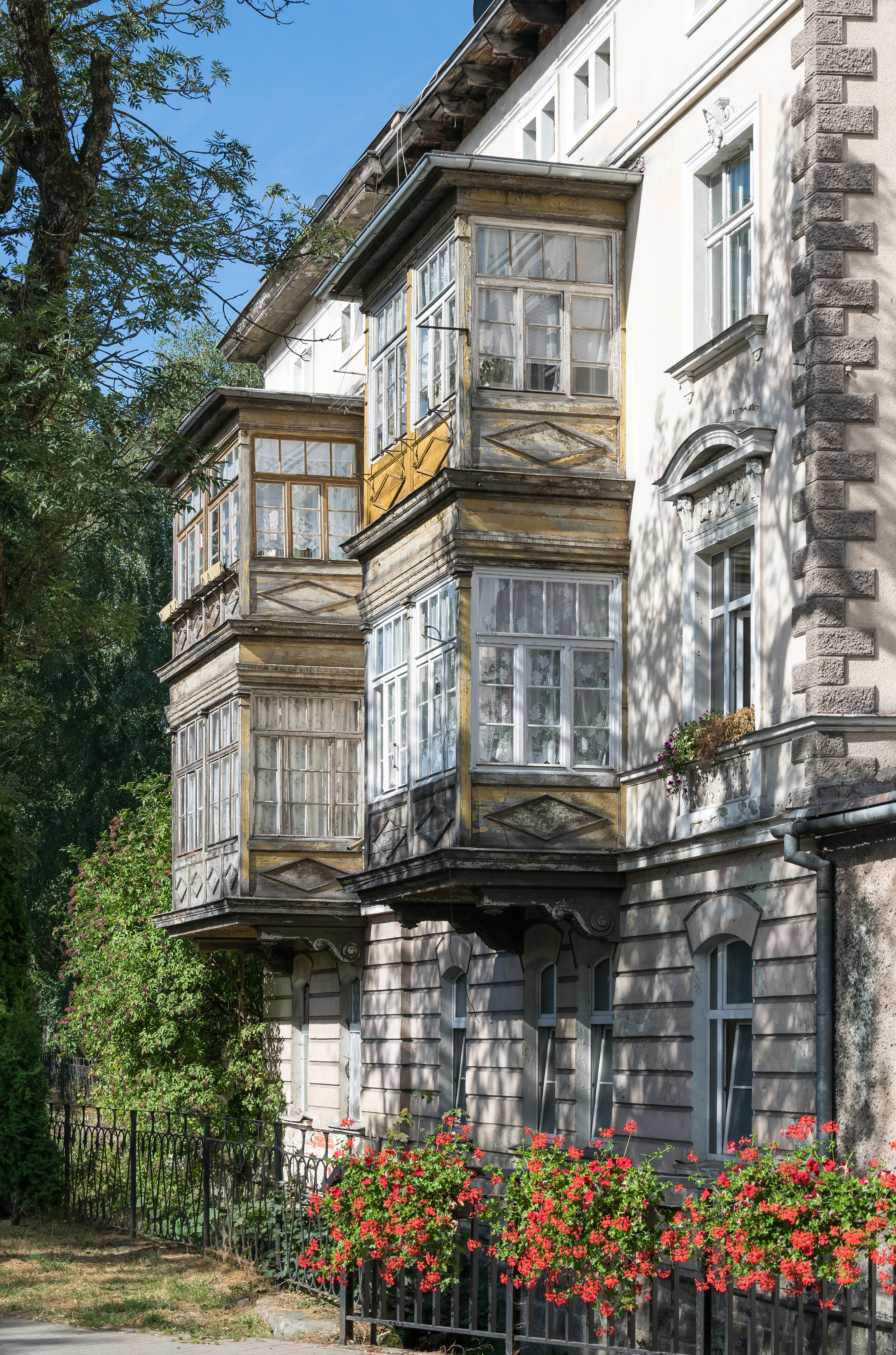 4 Warszawy Square in Duszniki-Zdrój Wikidata has entry Q30047063 with data related to this item.